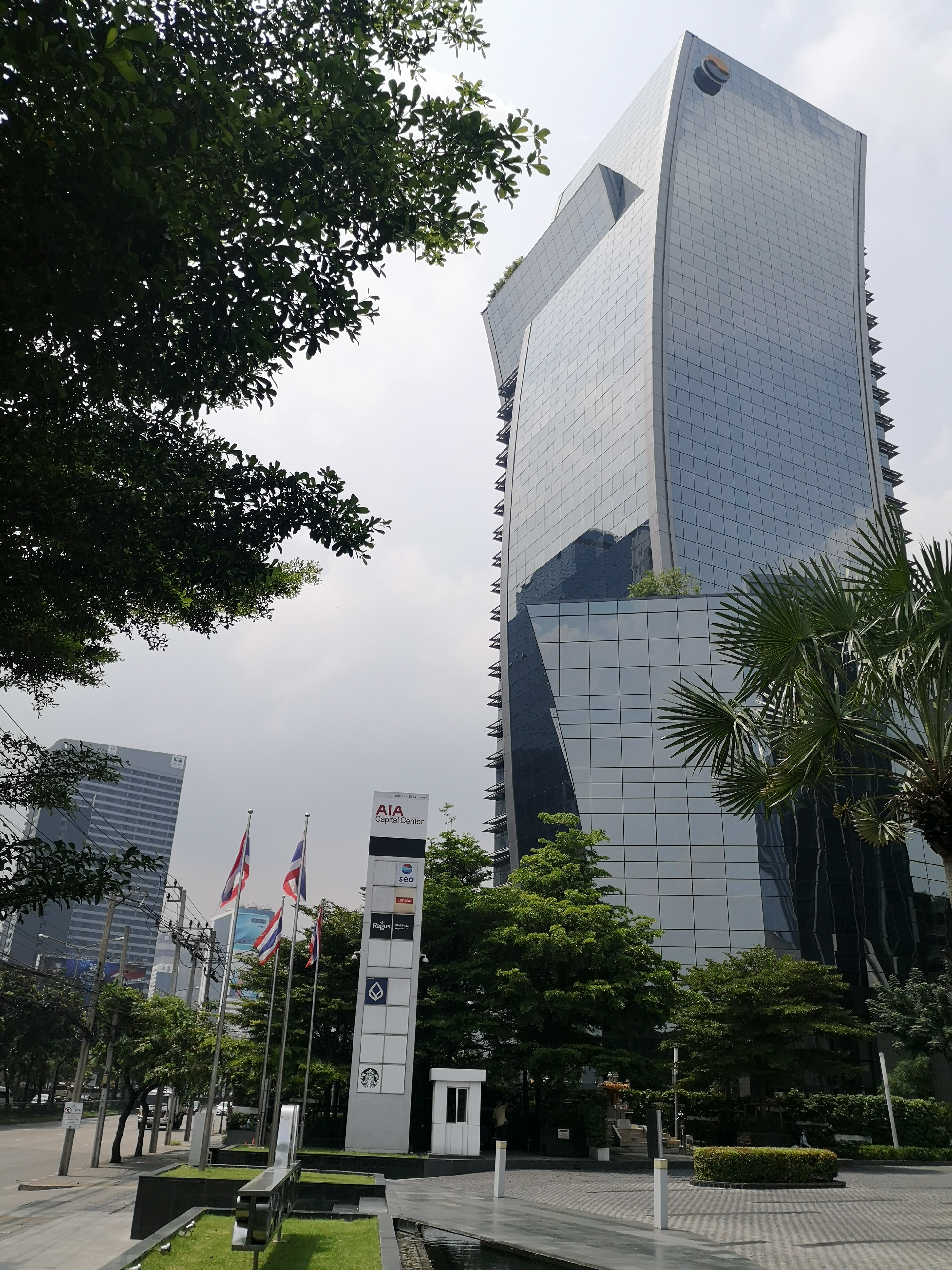 An office building of Stock Exchange of Thailand.